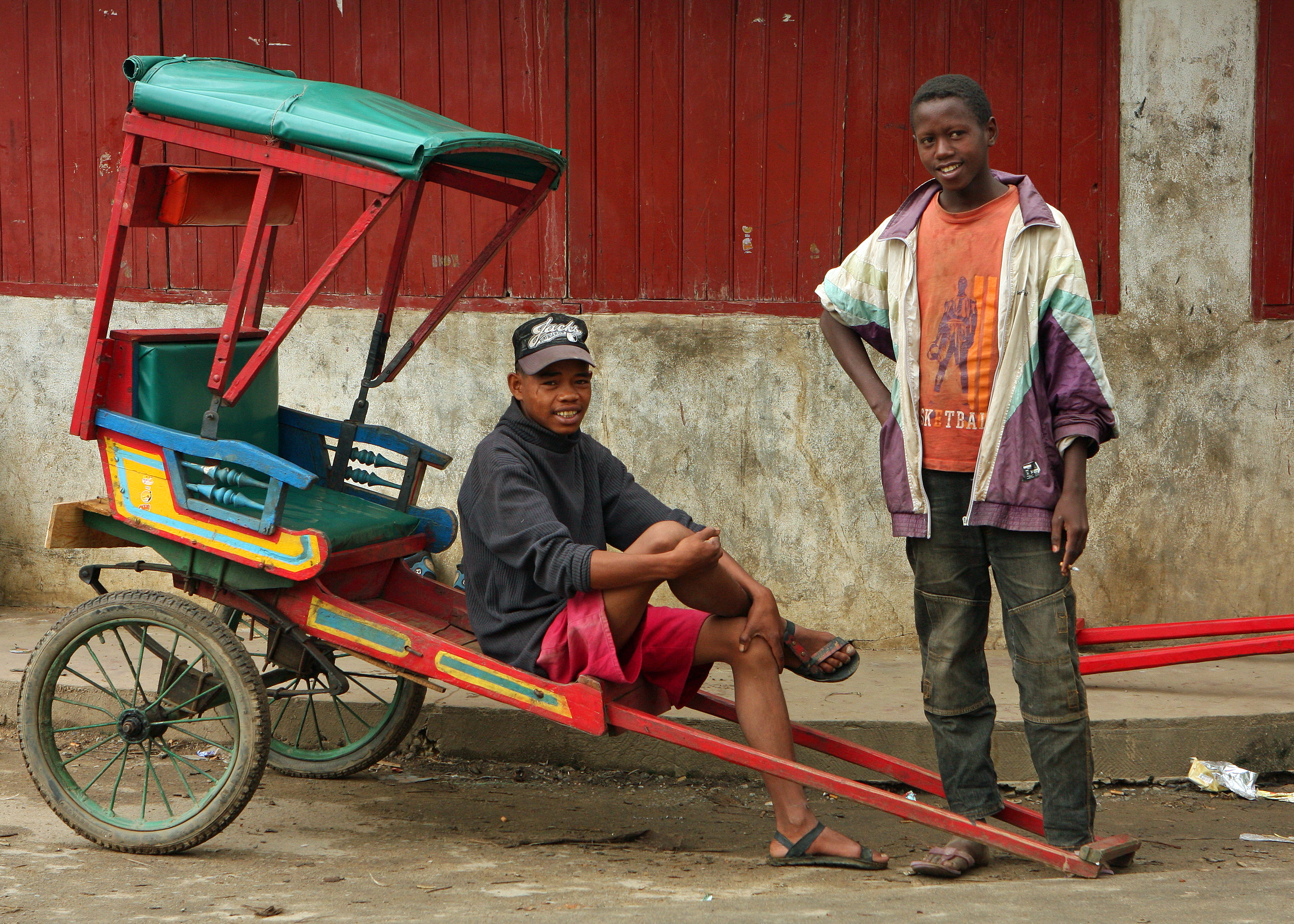 Took this in a small town on the way back from Andasibe on the road to Antananarivo.